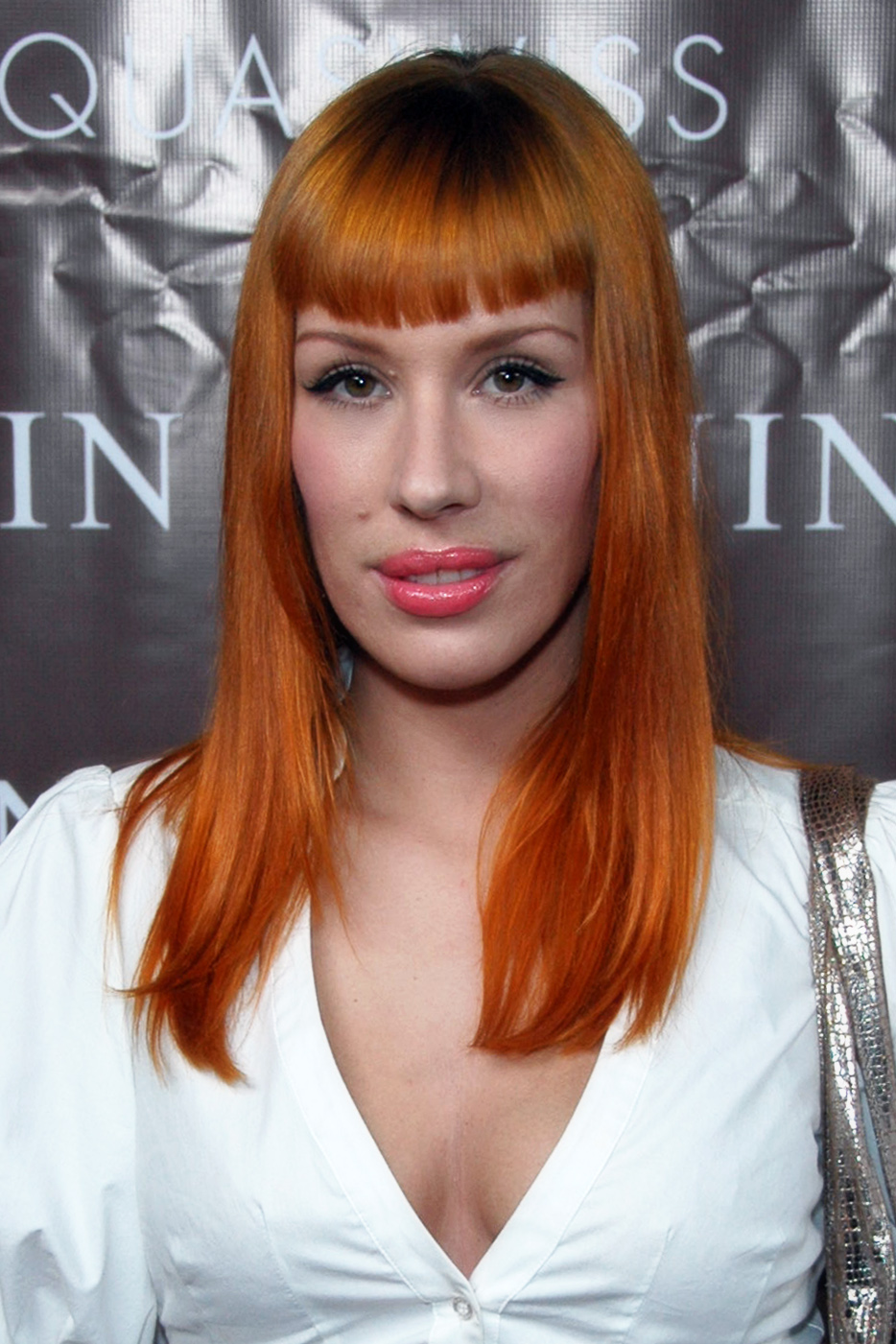 Esthero attending Claudia Jordans 35th Birthday Party at Boulevard 3, Hollywood, CA 04-13-08